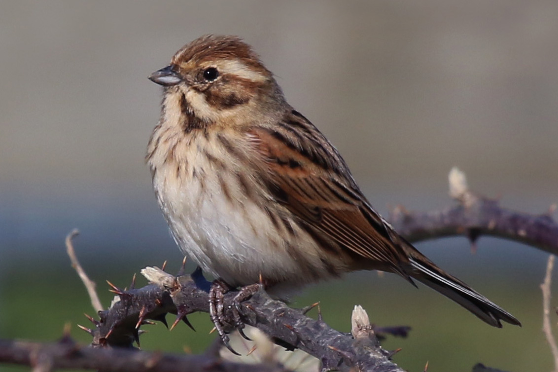 Common reed bunting (emberiza schoeniclus) - female, at Otmoor RSPB Reserve, Oxfordshire